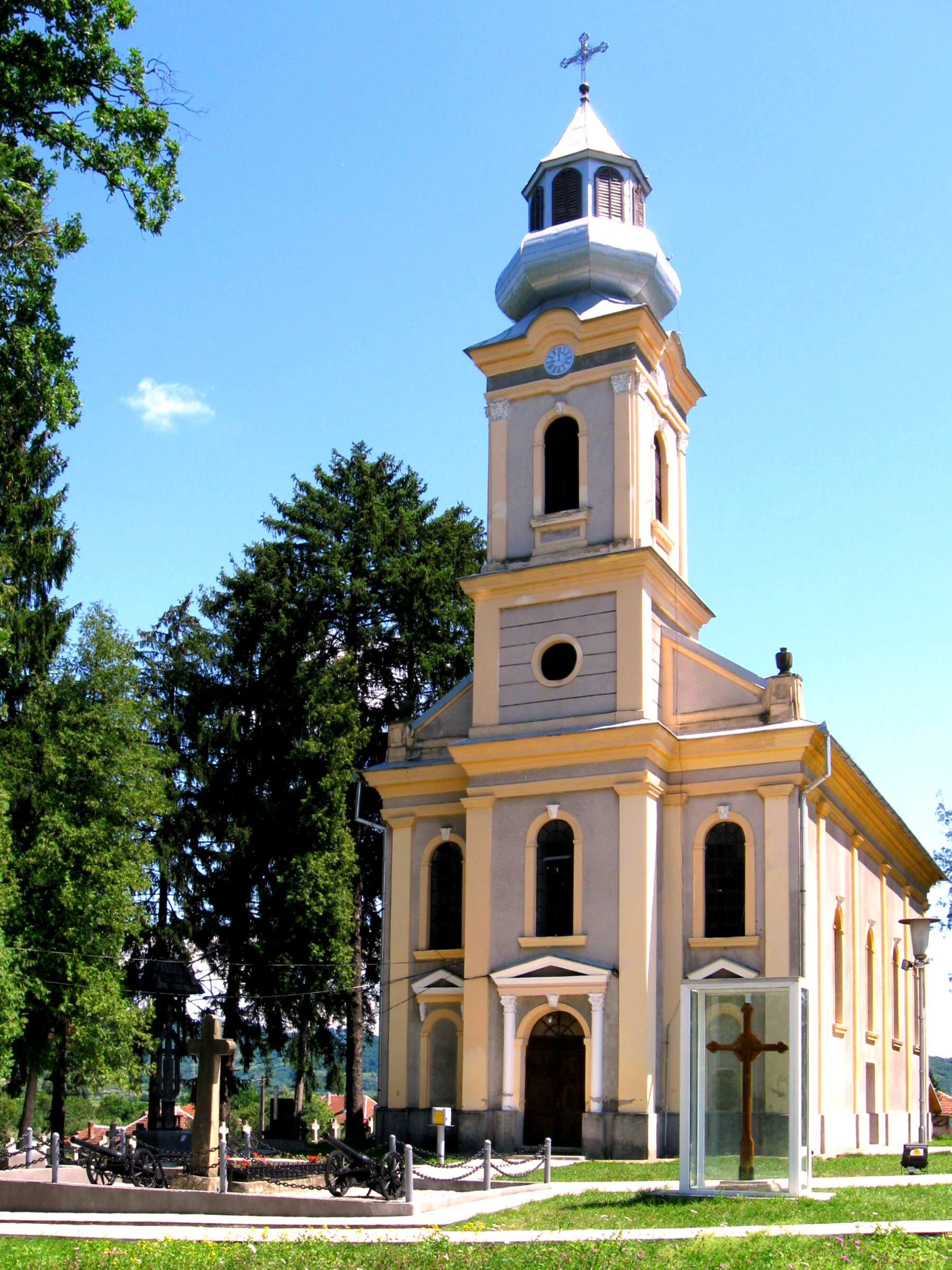 Church with Tricolour in Țebea, Hunedoara